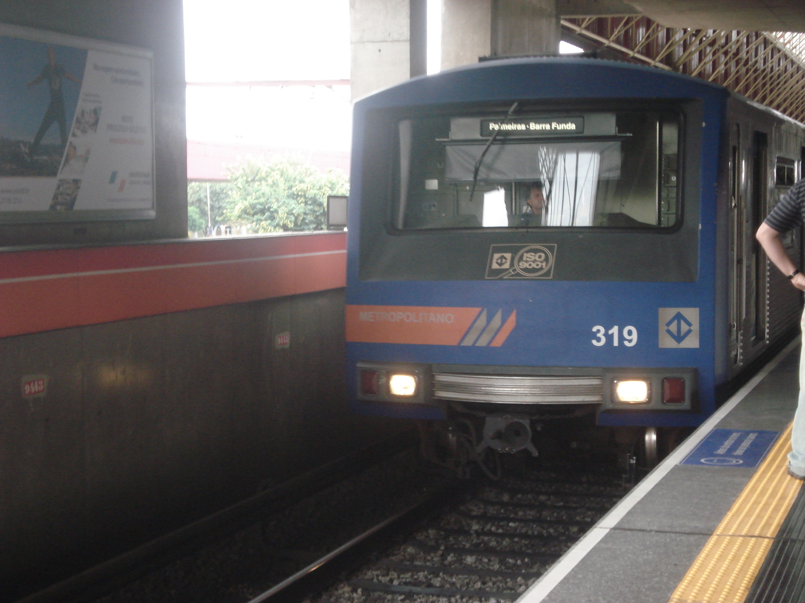 Cobrasma C-319 train in Carrão Station of Line 3 - Red of São Paulo Metro.